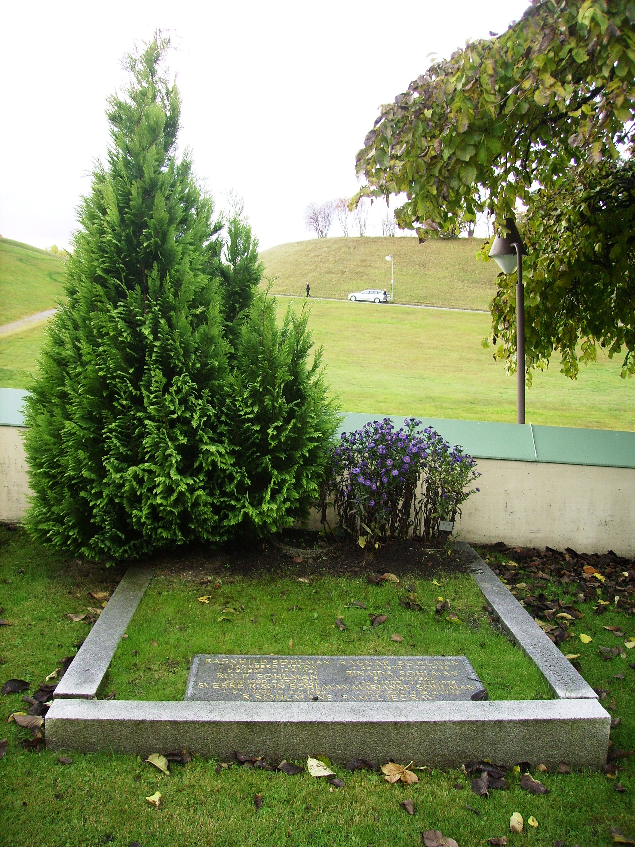 Picture of Ragnar Sohlman's grave at Skogskyrkogården in Stockholm